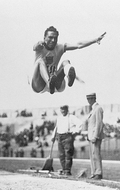 Edward Orval Gourdin of the USA in action during the Long Jump event at the 1924 Olympic Games in Paris. Gourdin won the silver medal in this event.